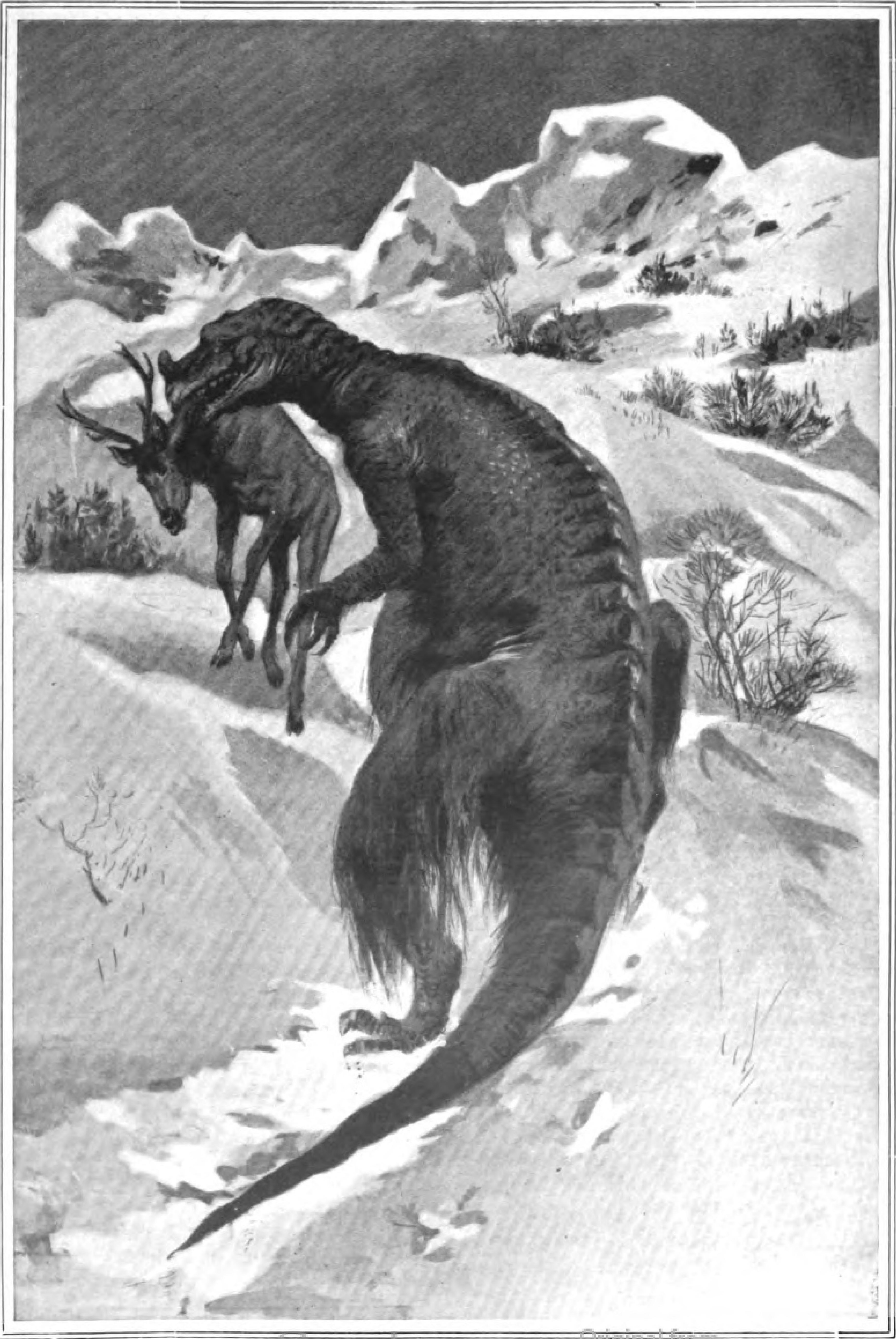 "The beast held in its jaws what seemed to be a caribou" from The Strand Magazine (July 1908)